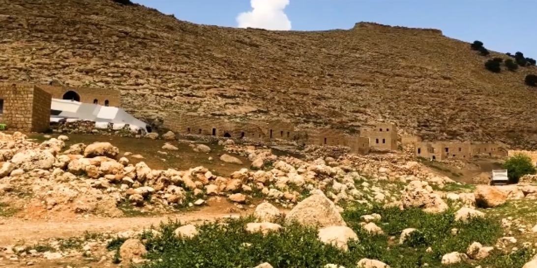 Yazidi village Geliye Sora in Turkey